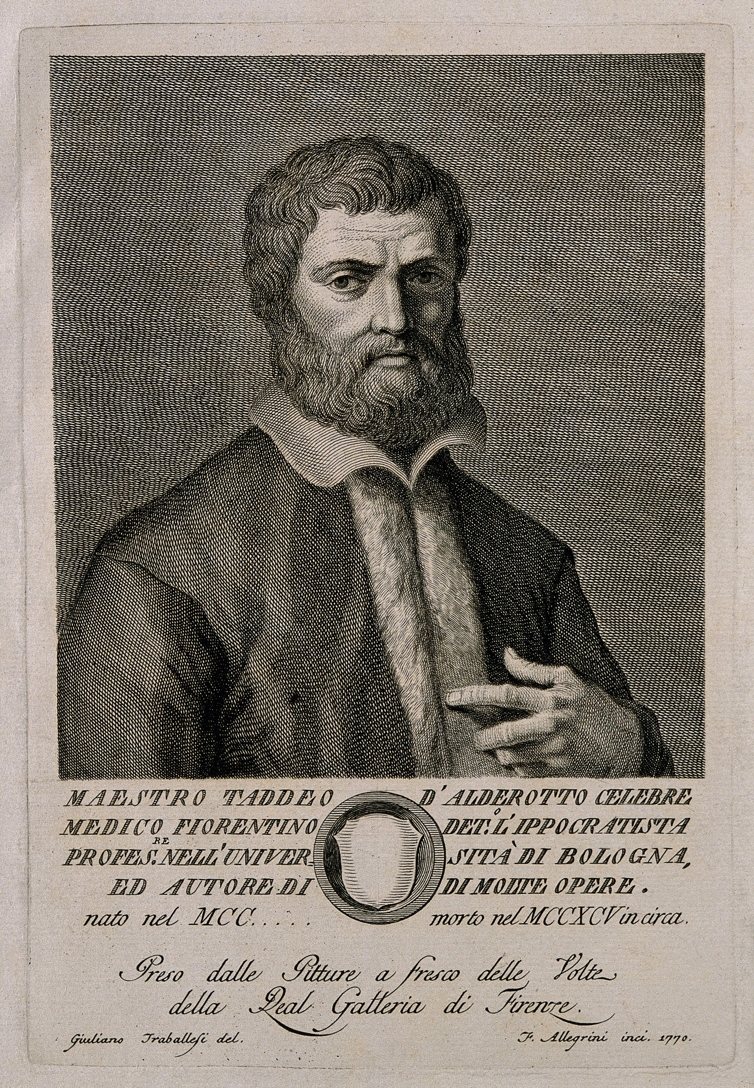 Florentinus Thaddaeus [Taddeo Alderotti]. Line engraving by F. Allegrini, 1770, after G. Traballesi. Iconographic Collections Keywords: portrait prints; engravings; Giulio Traballesi; F. Allegrini; Florentinus Thaddaeus